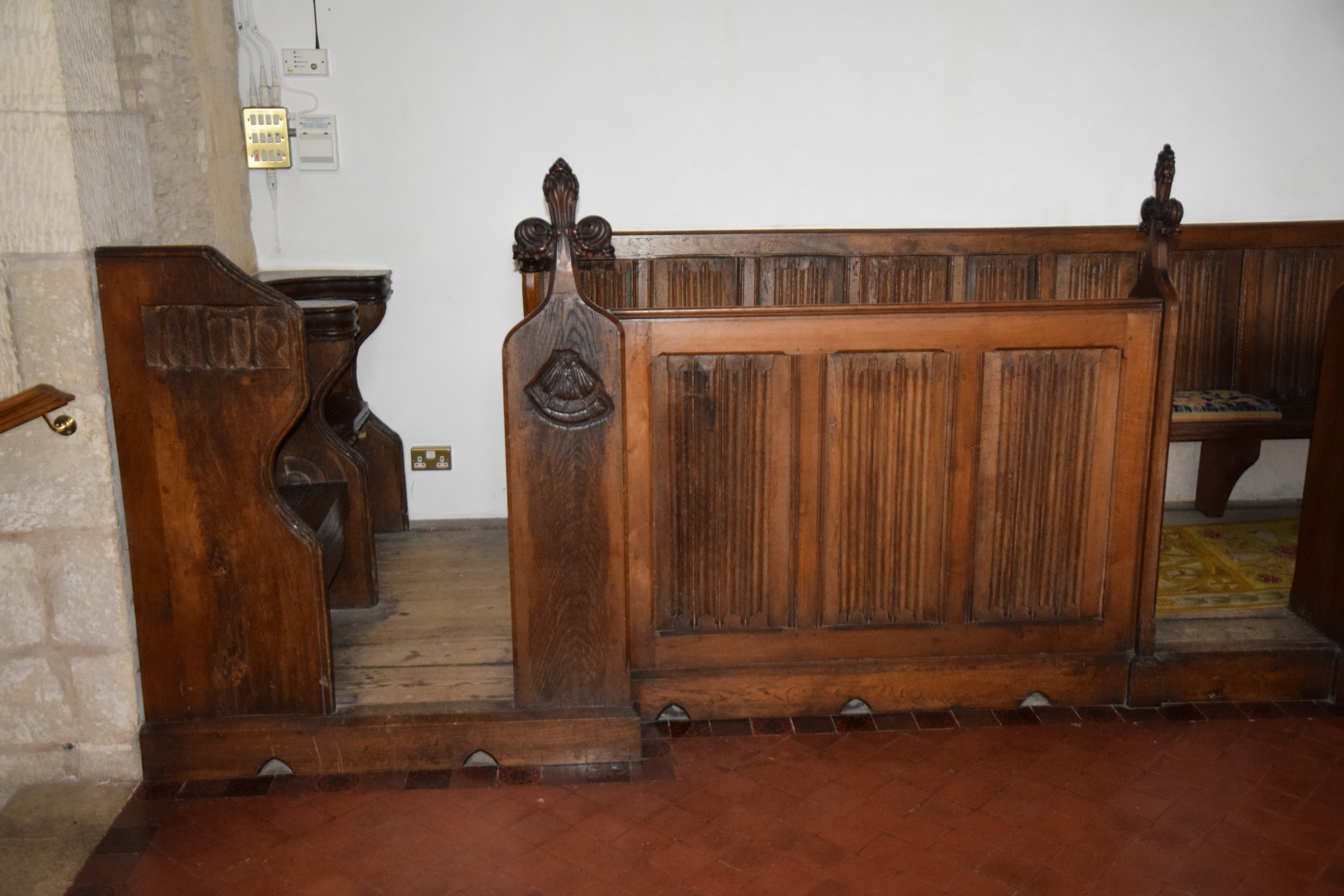 Bampton Church (Saint Mary), Oxfordshire, 6 September 2018. Pictured are the choir stalls with early 16th Century linenfold panelling.